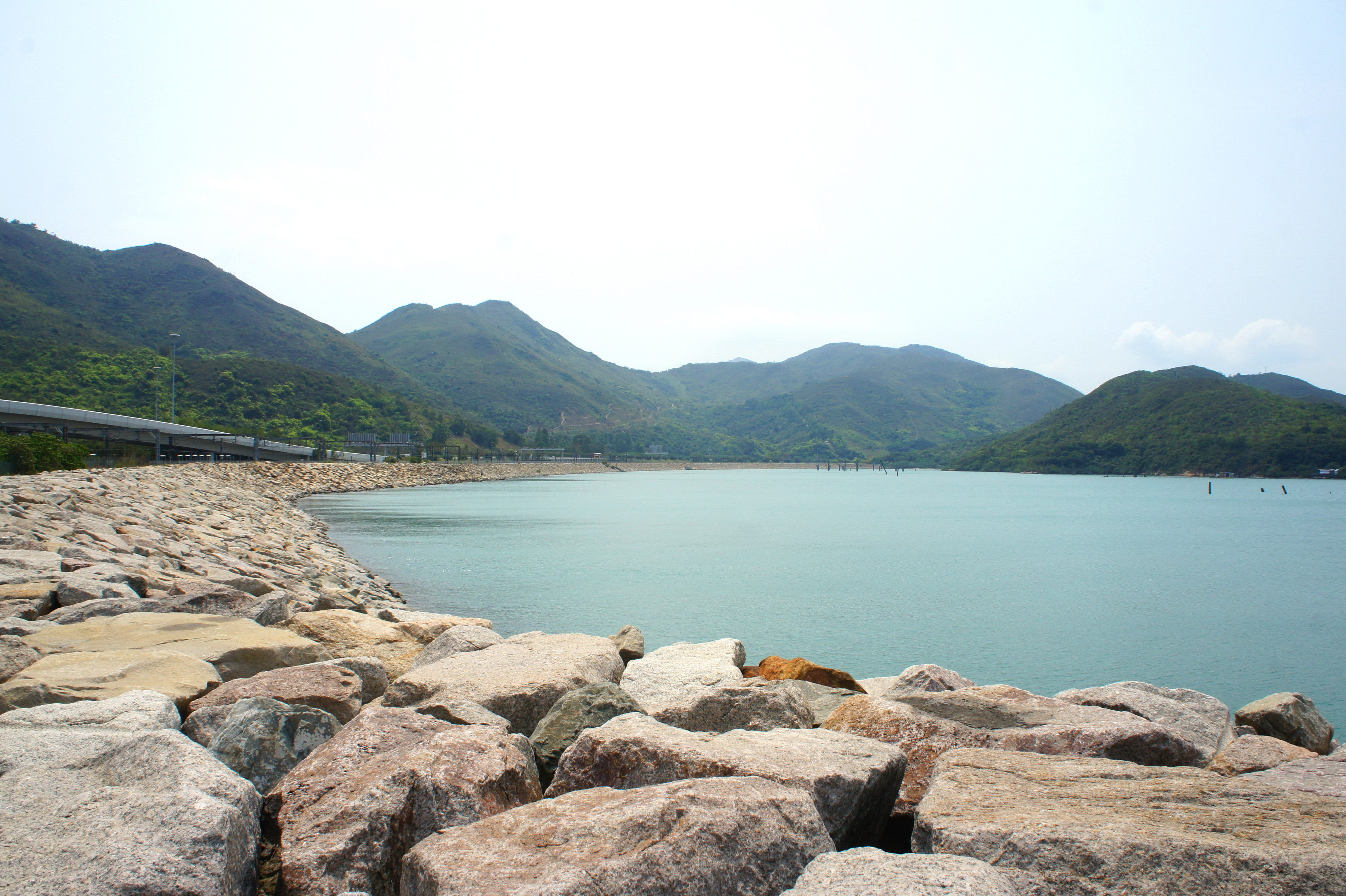 Yam O, Lantau Island, Hong Kong.